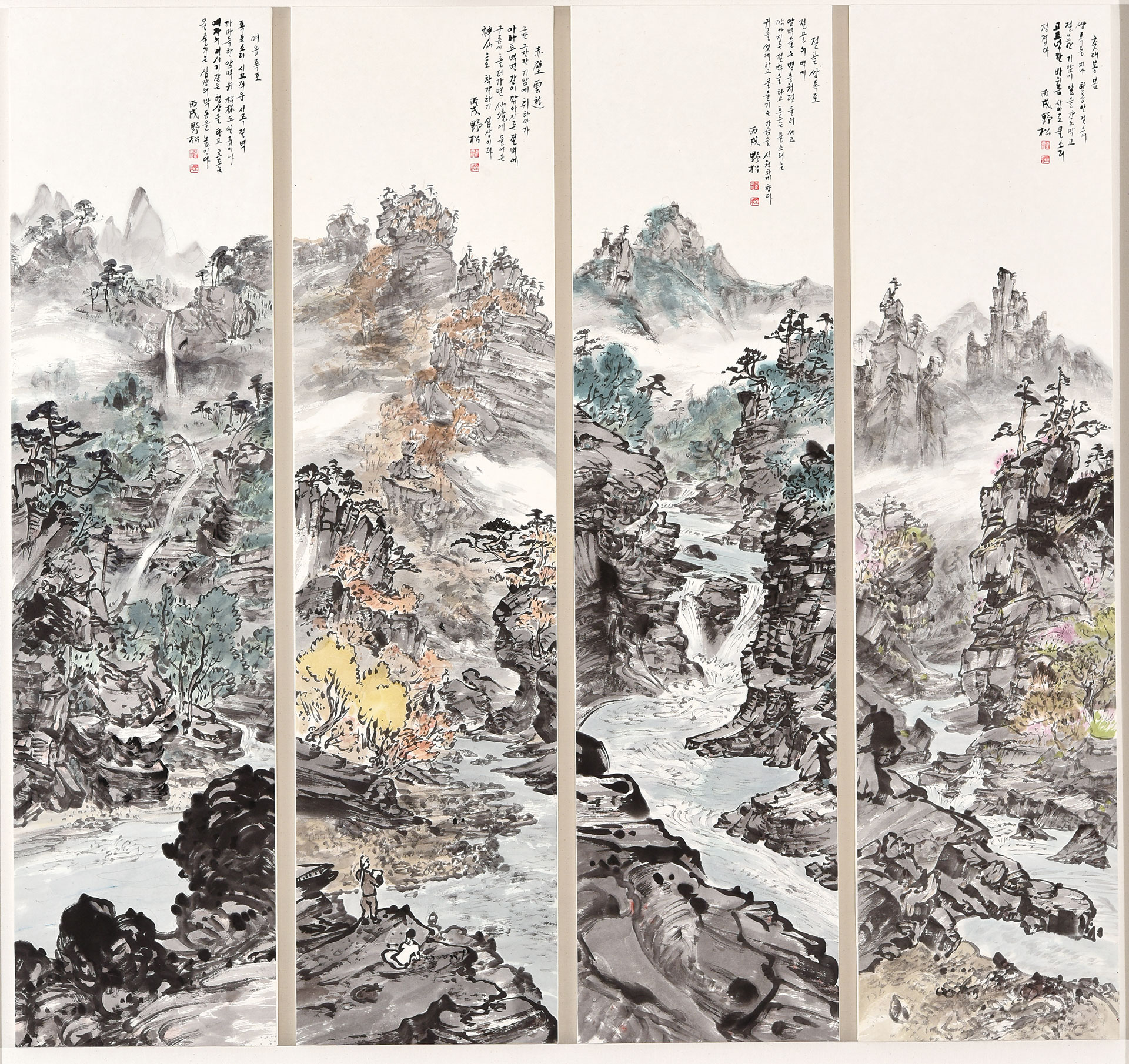 2005 work, four views of Juwangsan, Yasong Lee Won Jwa